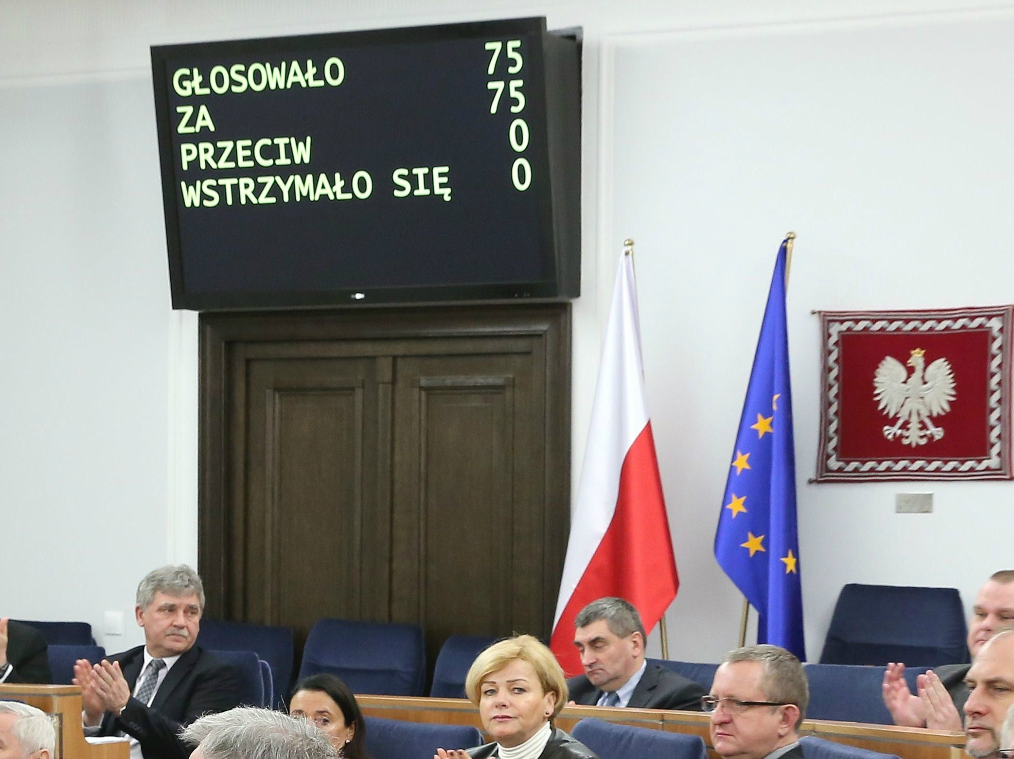 71st sitting of the Polish Senate